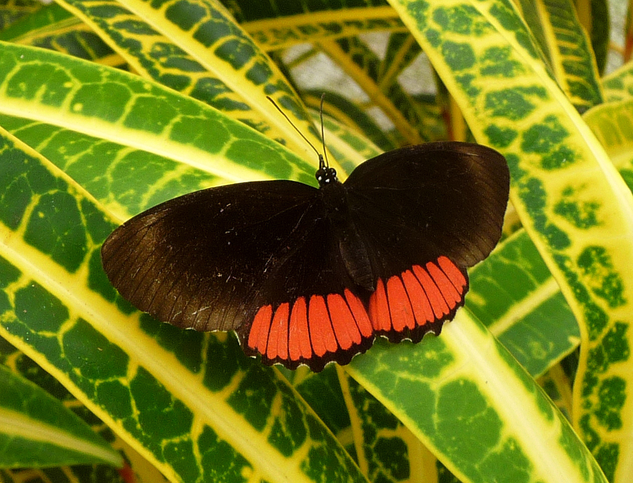 Biblis hyperia. Red Rim.